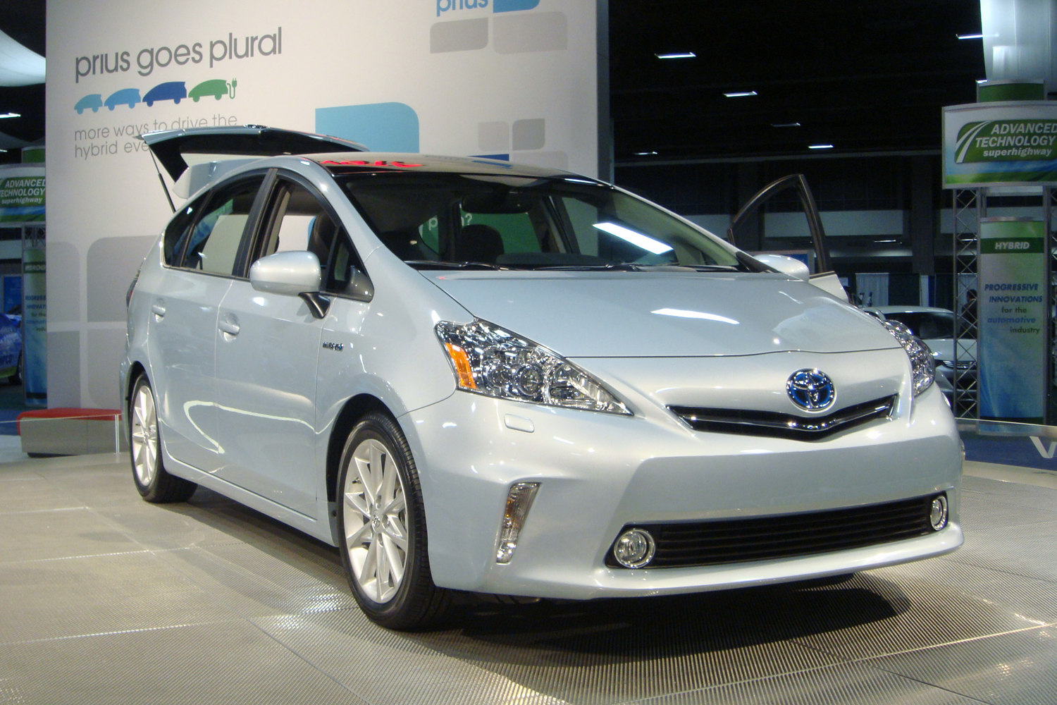 Toyota Prius V hybrid car exhibited at the 2011 Washington Auto Show